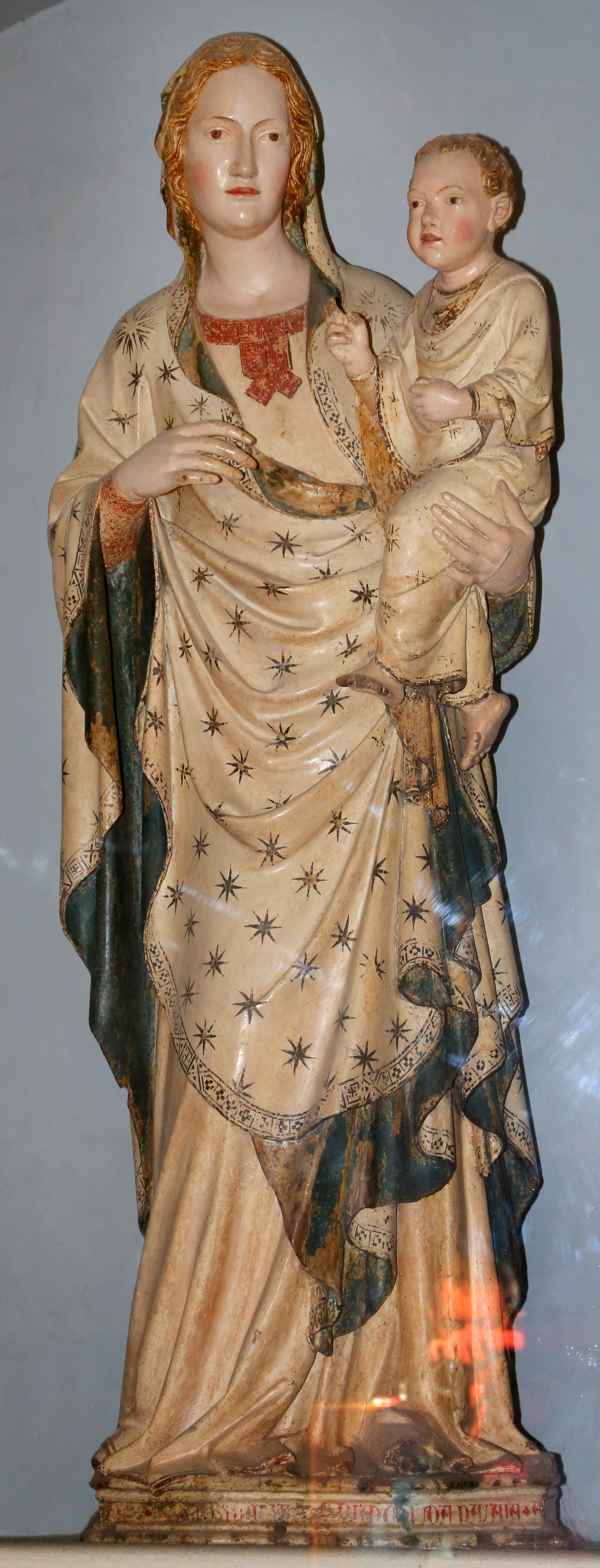 Palaia Madonna with Child by Francesco di Valdambrino